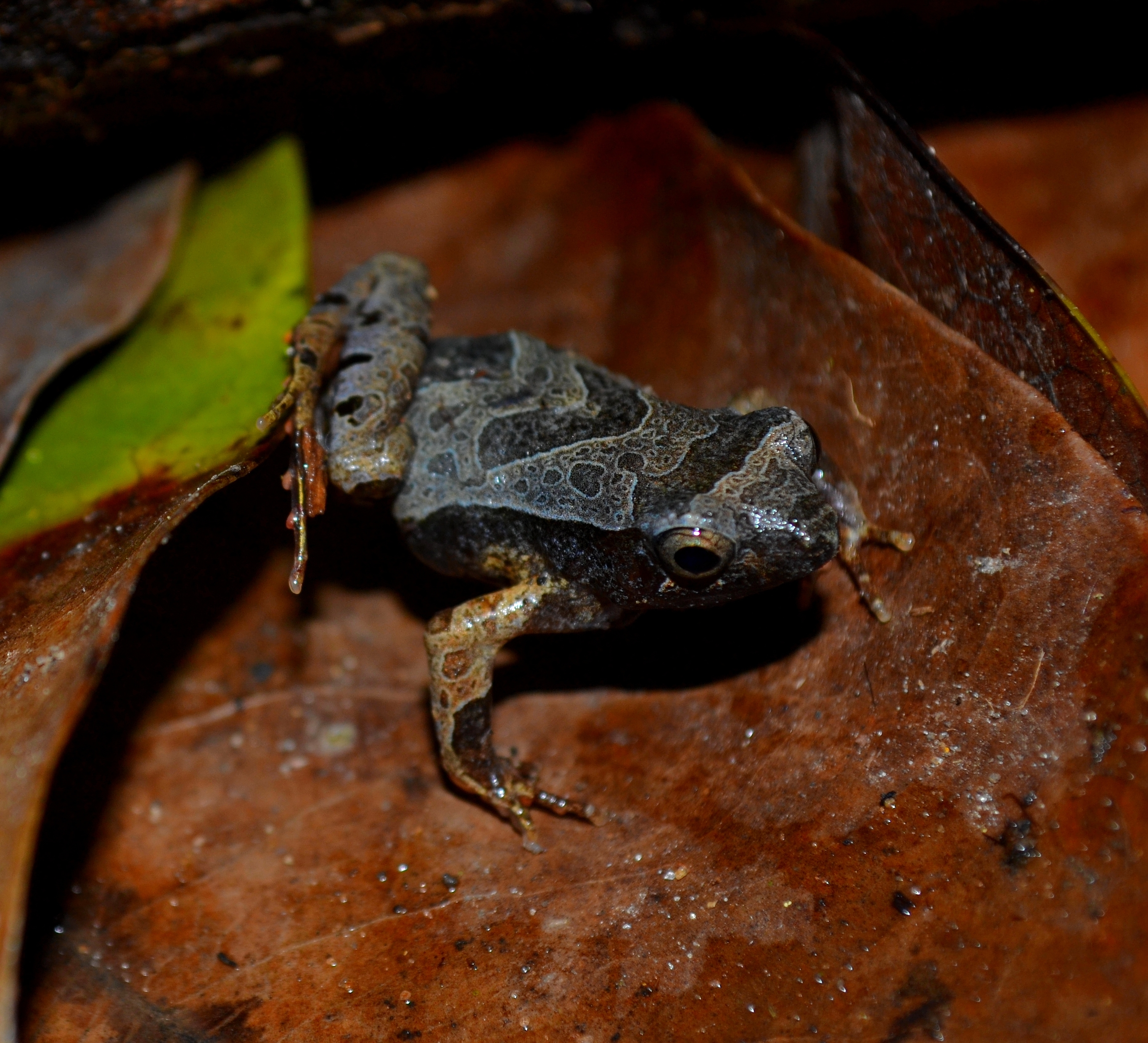 A specimen of Physalaemus caete, photographed during a herpetological research in Aldeia, Pernambuco.